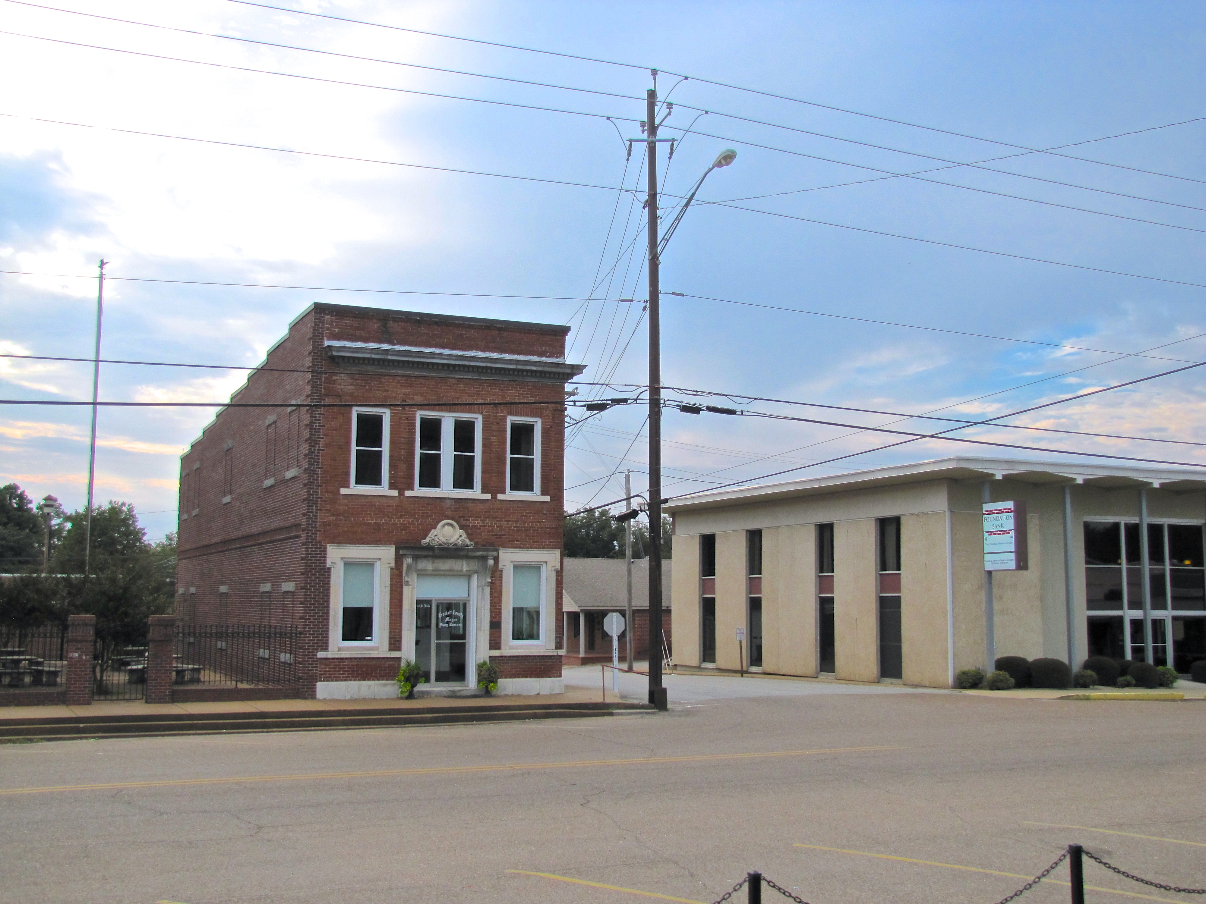 The Bank of Alamo building in Alamo, Tennessee, United States.